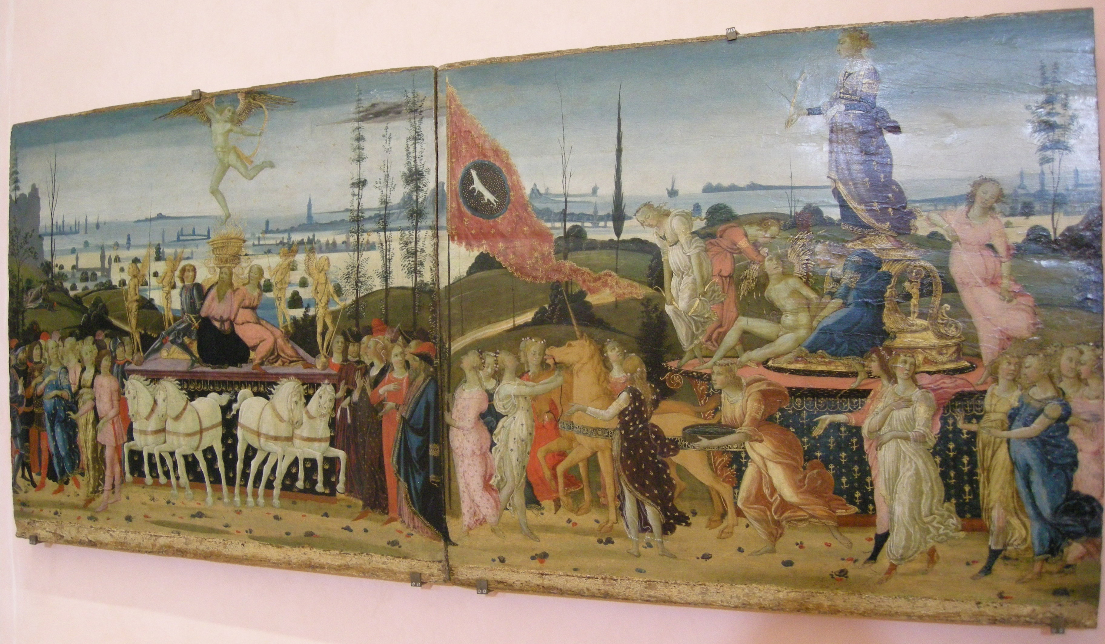 Jacopo del Sellaio, Triumph of Love and Triumph of Chastity, circa 1480 – 85, tempera on panel, 75.5 cm × 89.5 cm and 76 cm × 86.5 cm, Museo Bandini, Fiesole.